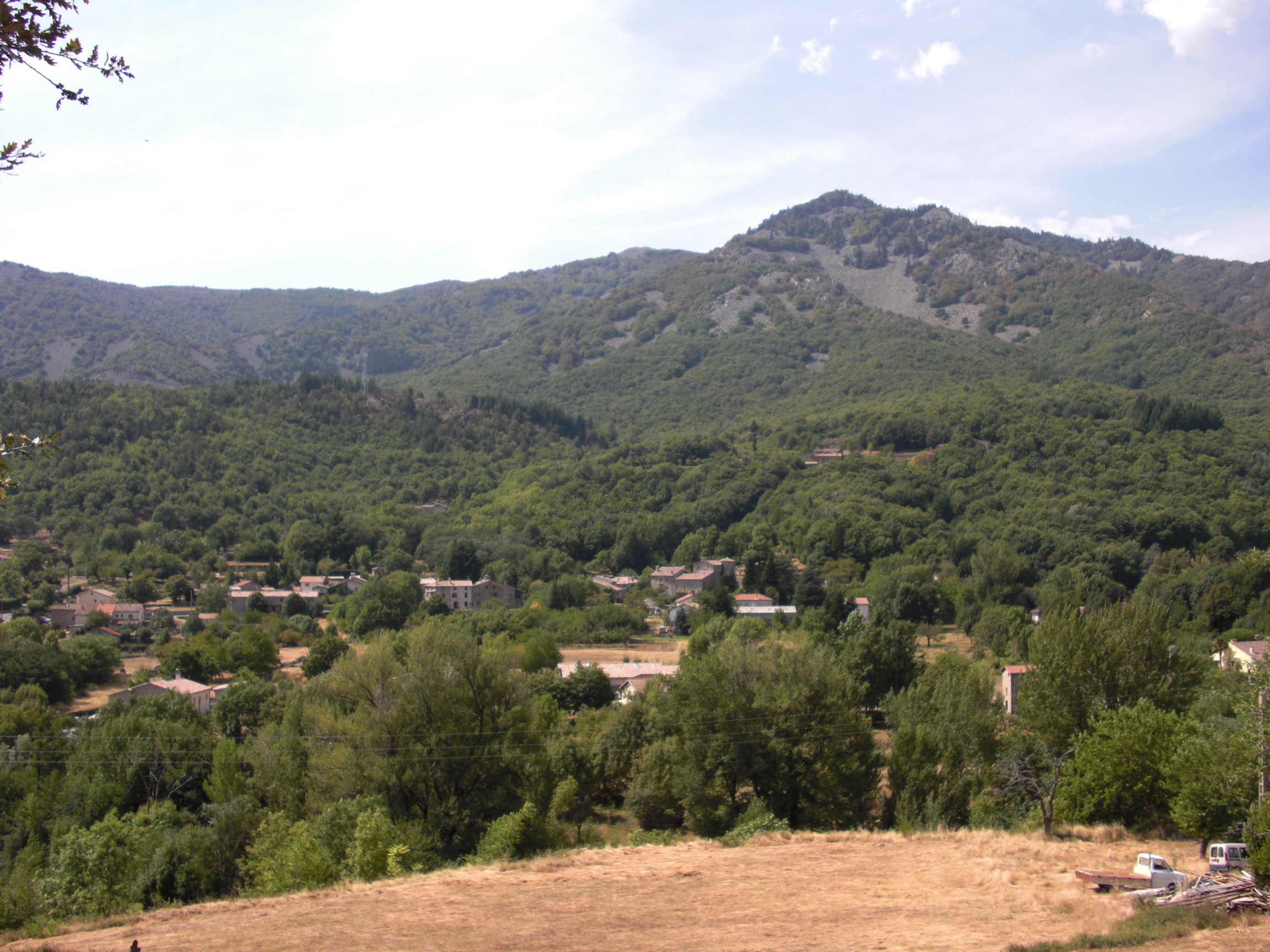 Village of Charay (La Souche)